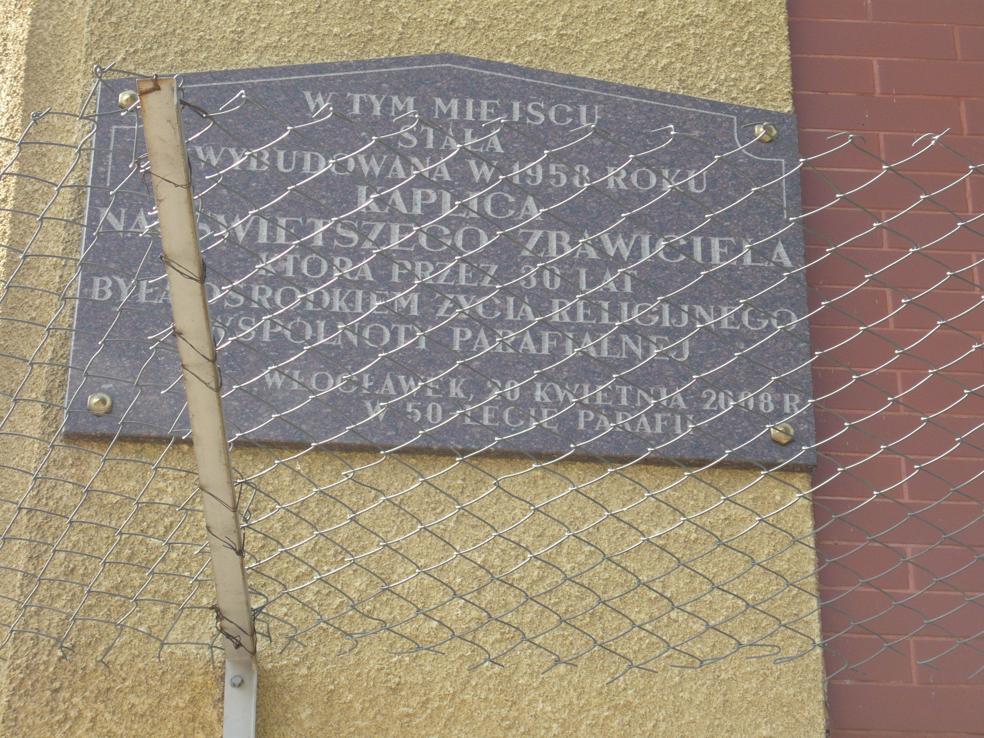 The plaque of the first church of Saint Jesus the Salvator in Włocławek.